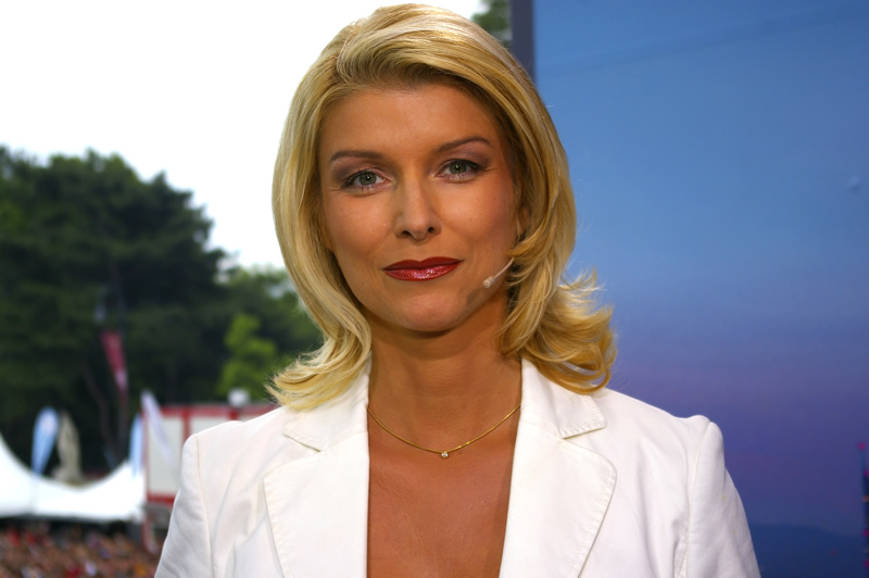 Elisabeth Vogel, a female moderator of an austrian broadcast